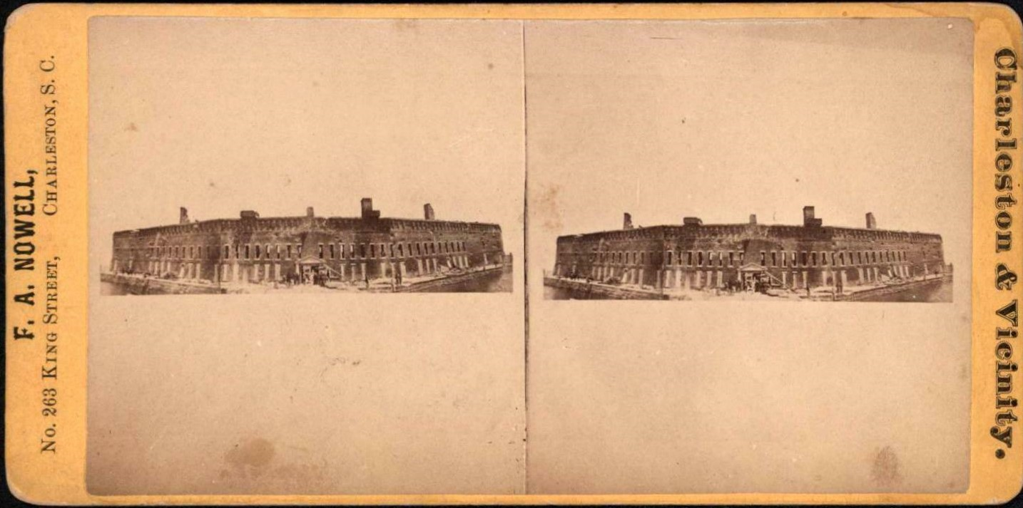 Fort Sumter was photographed in 1861, and the image was used in a stereoscope view that was published in 1865 by the F.A. Nowell Co.